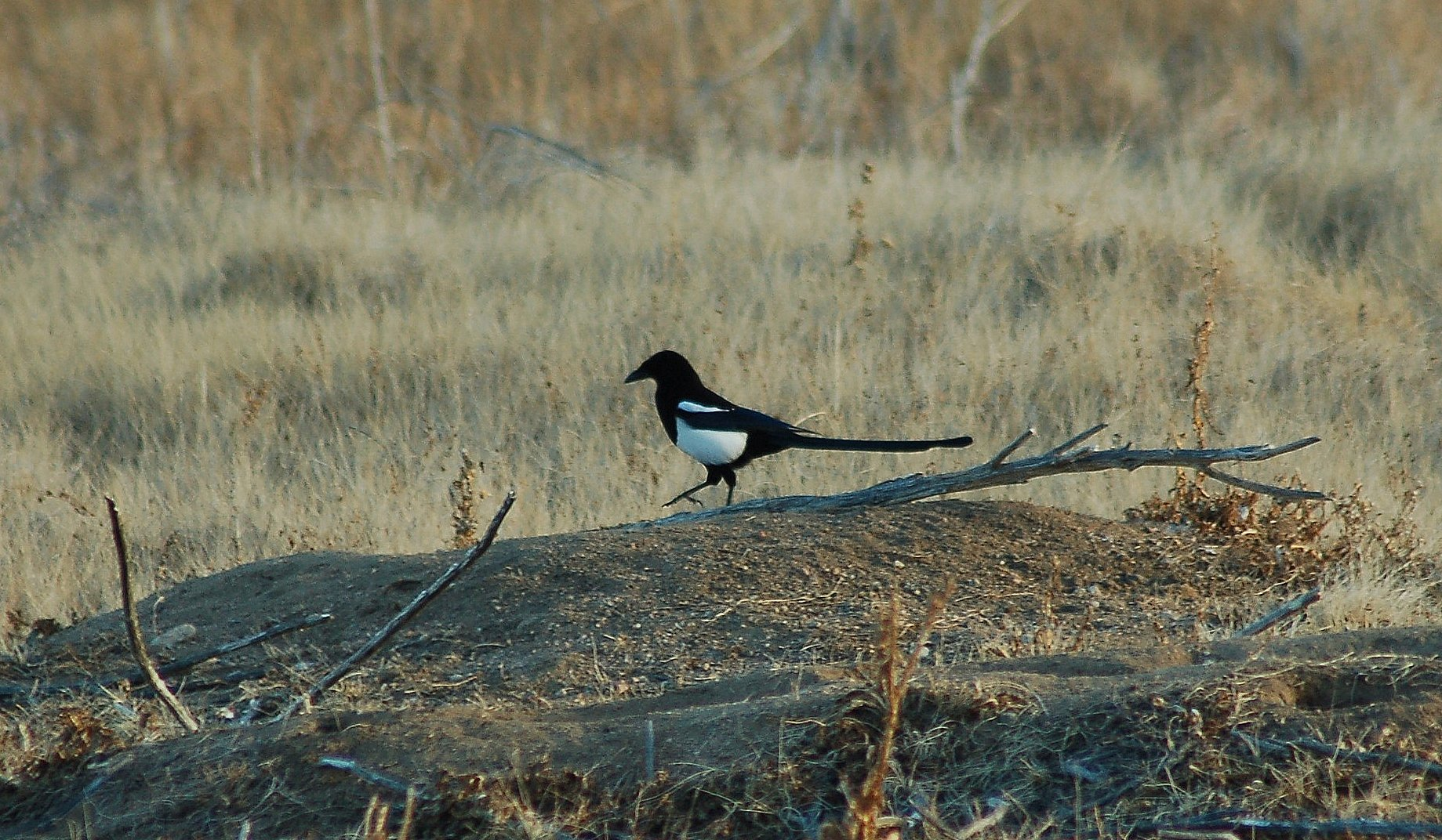 Black-billed Magpie (Pica hudsonia) foraging on the ground near Cherry Creek, Denver, United States